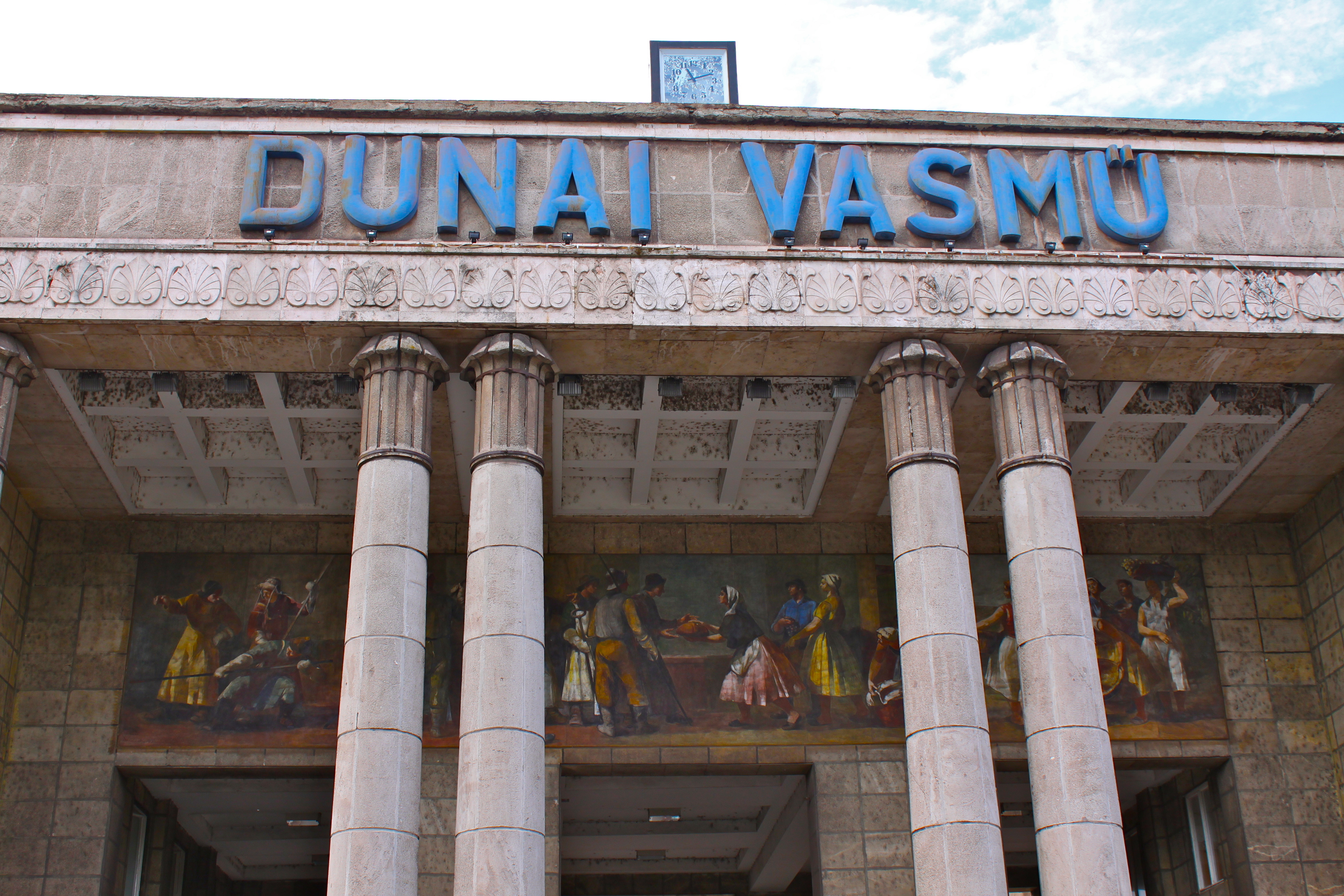 The Dunaferr forge's gate